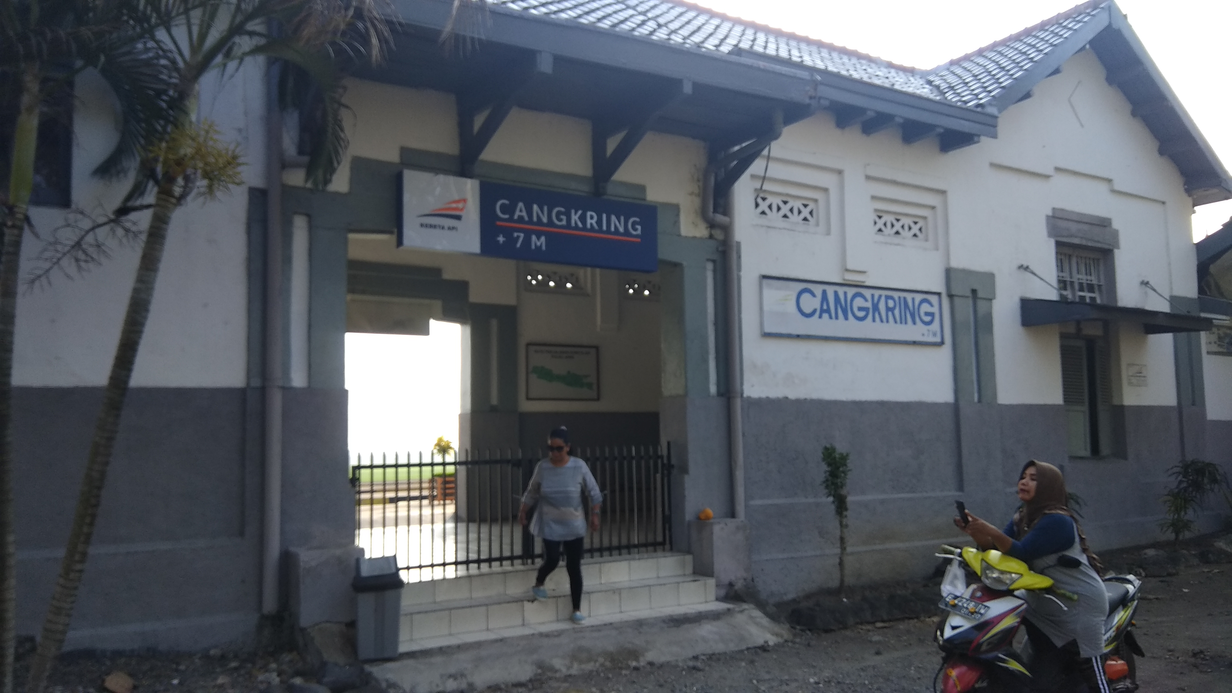 Cangkring train station